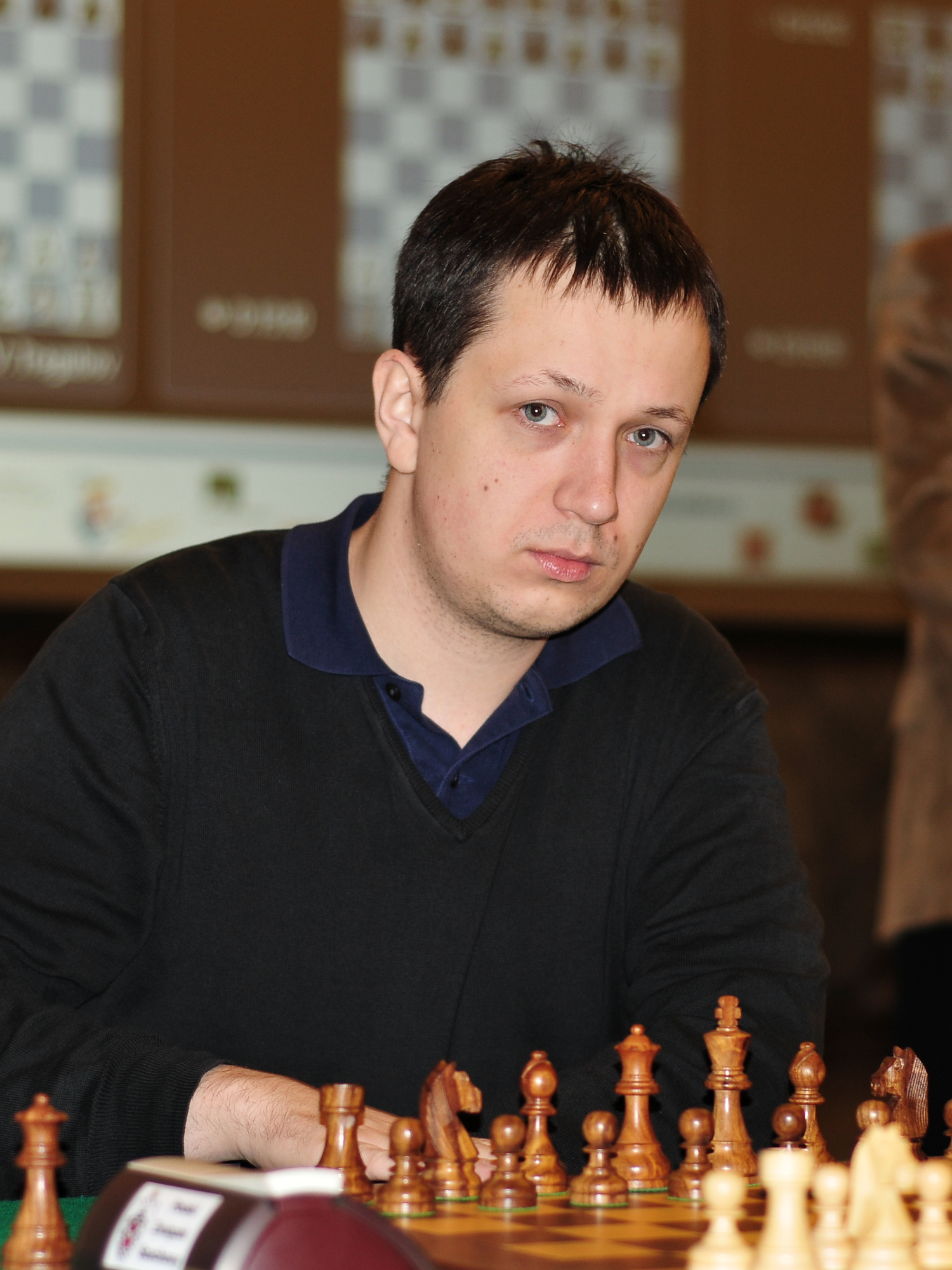 GM Radosław Wojtaszek, European Rapid Chess Championship, Warsaw 2013.